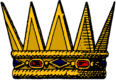 The heraldic crown of the Hakims of Bahrain and the Emirs of the State of Bahrain.